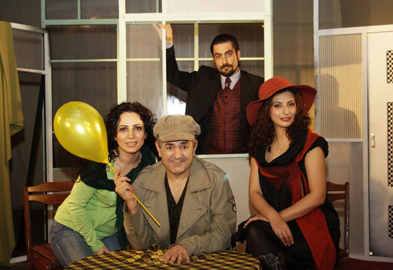 Metro theater-studio of NCA, Aralez play